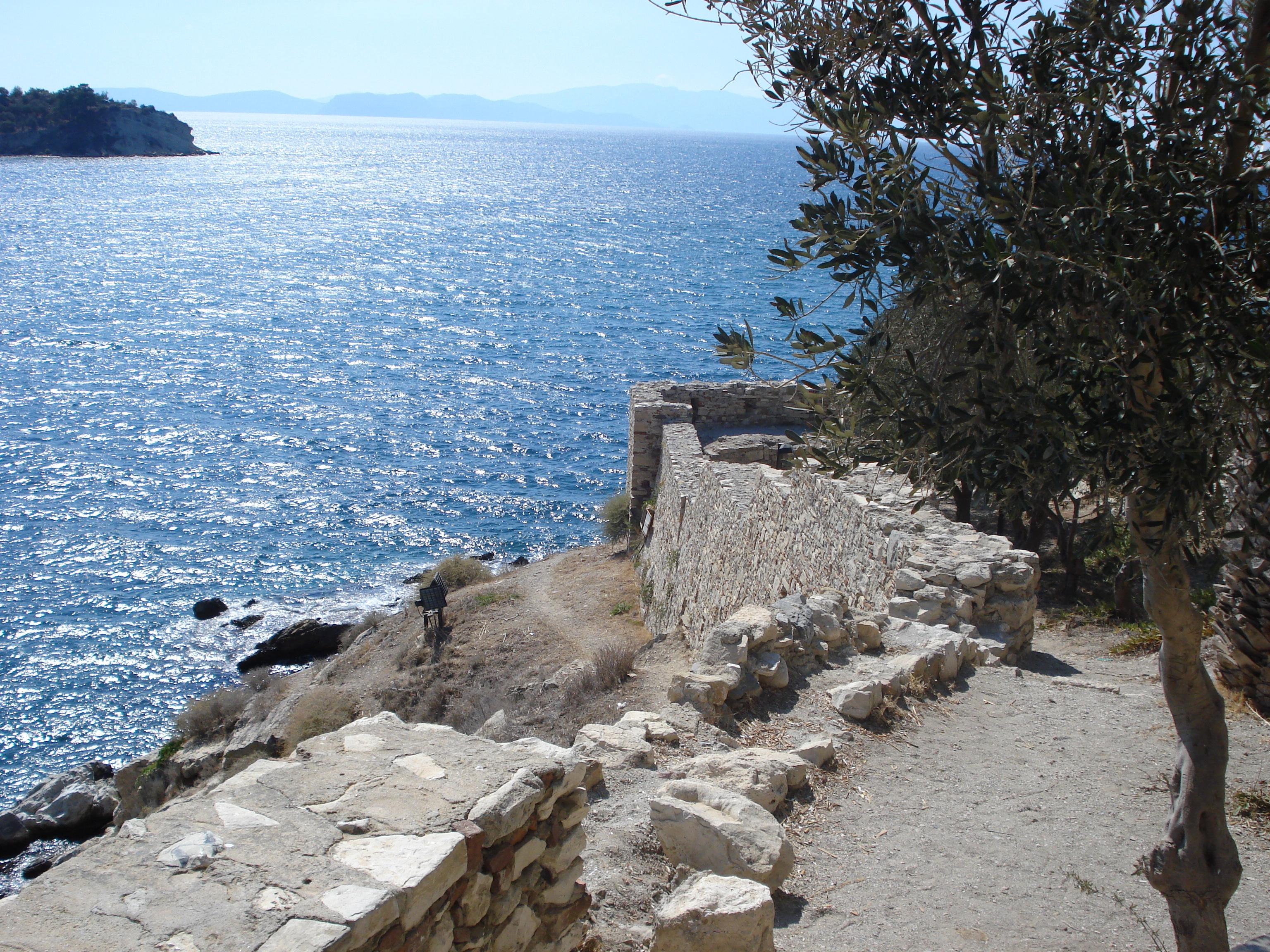 Kusadasi, view of Guvercinada